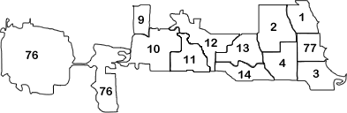 Redivided community areas. North side of Chicago, adapted from the Community areas of Chicago map. Created in Macromedia Flash 4. PNG-8 Index transparency.